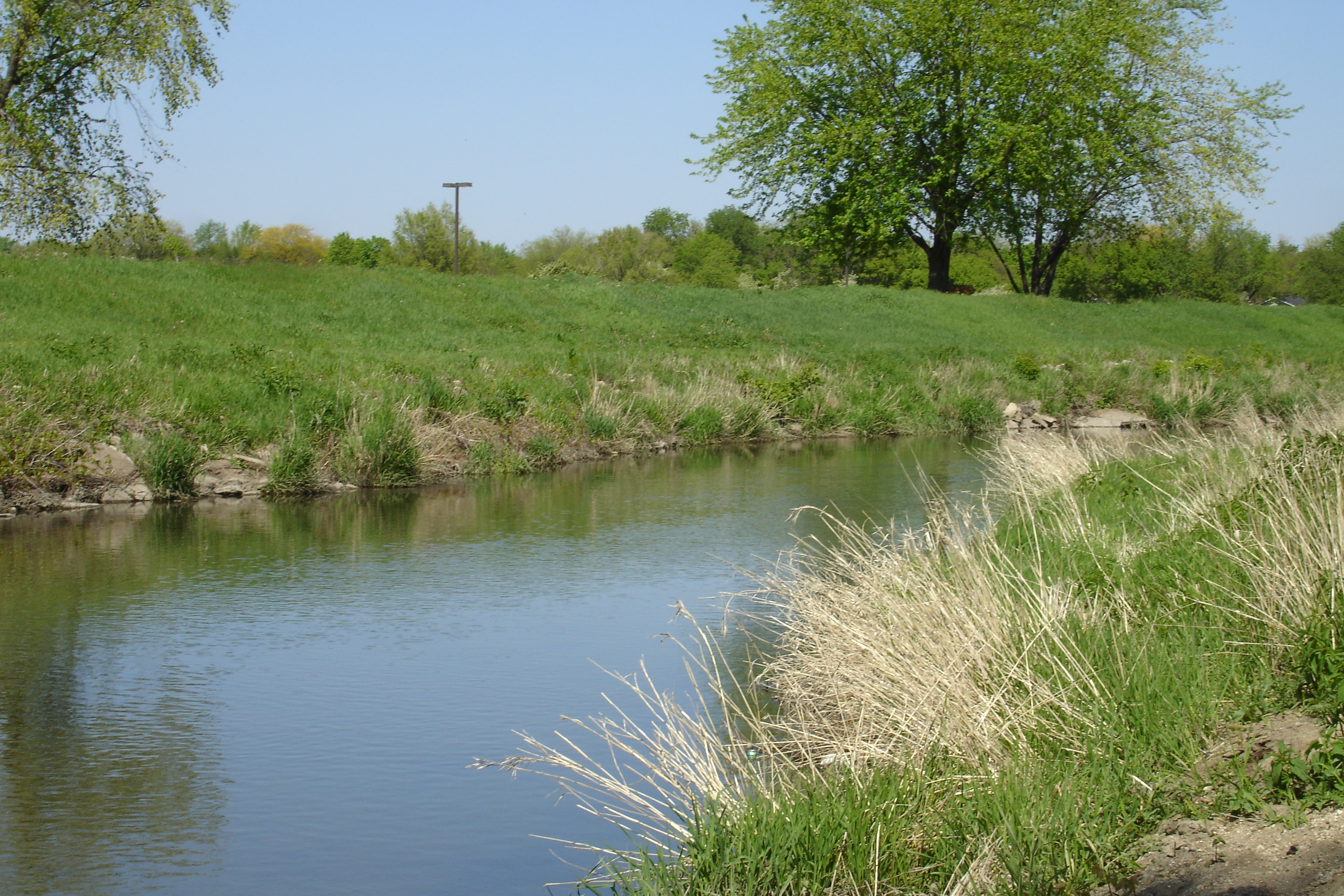 The Kishwaukee River meanders by Annie's Woods in DeKalb in Spring 2006. Grasses along the river bank.